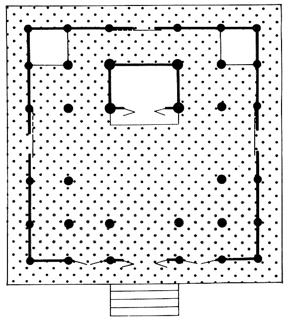 Layout of Shaka-dô of Zenpuku-in, Japan